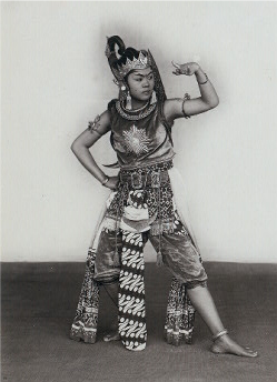 Wayang wong, Mangkunagaran. Djaikem (also Nyai Bei Mardusari or Bu Bei Mardusari) as Gatutkatja. Mangkunagaran, Surakarta, 1931-1937.